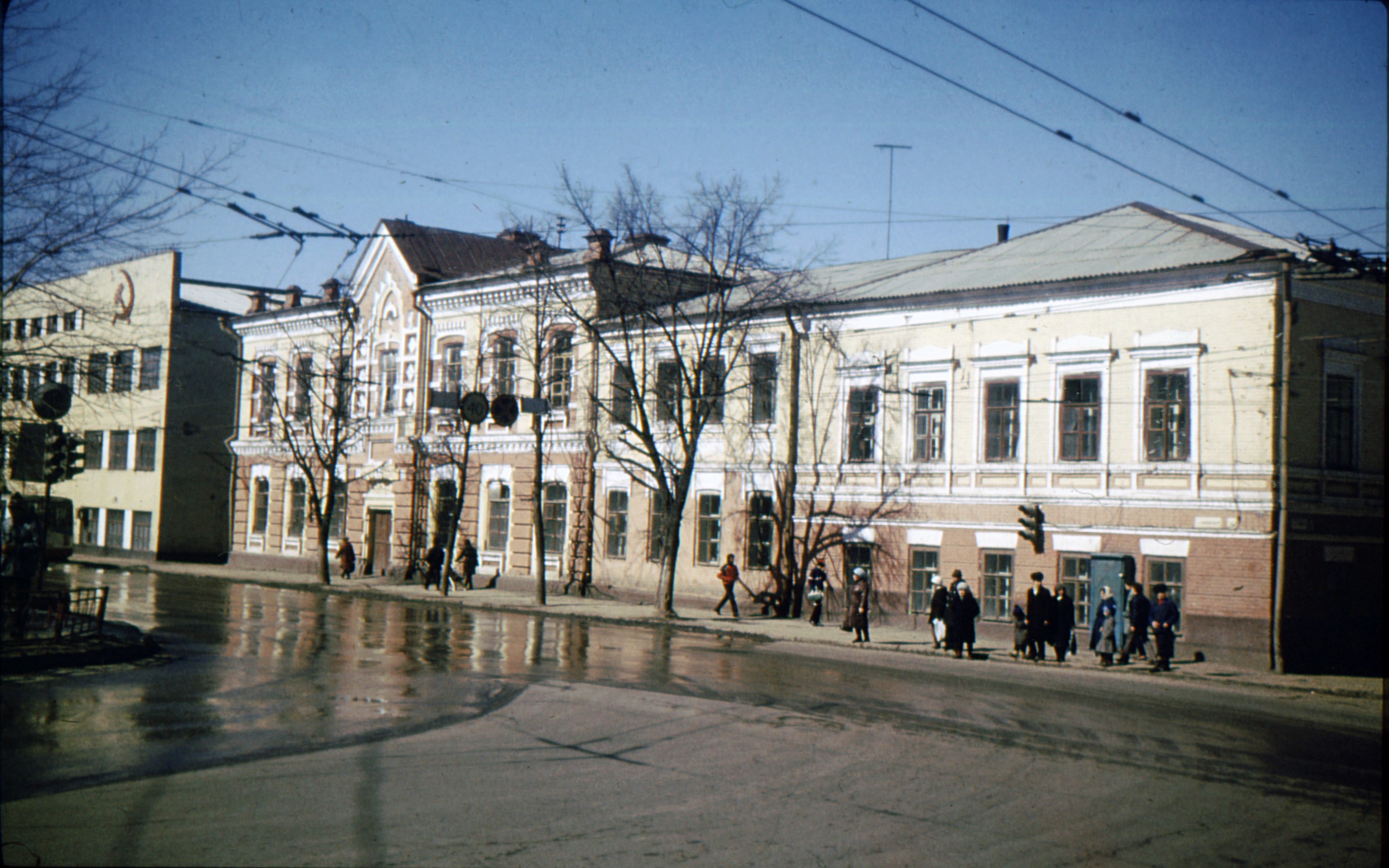 Volodarsky Street (now is Composers Vorobyovs Street) in Cheboksary. Photo of spring 1988.